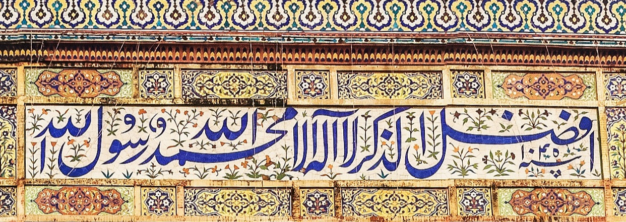 Hadith (Kalima) on the Entrance of Wazir Khan Mosque